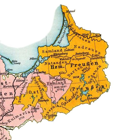 Map of East Prussia 1648